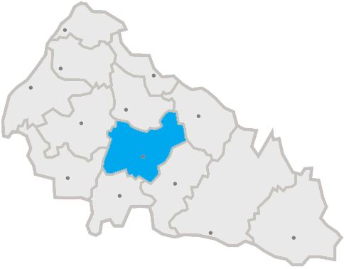 Ukraine, Oblast Transcarpathia, Rajon Irshava highlighted